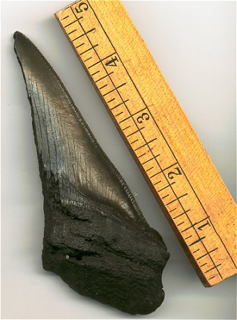 A Carcharodon subauriculatus (jr synonym: C. chubutensis) tooth with a slant height of 129 mm.